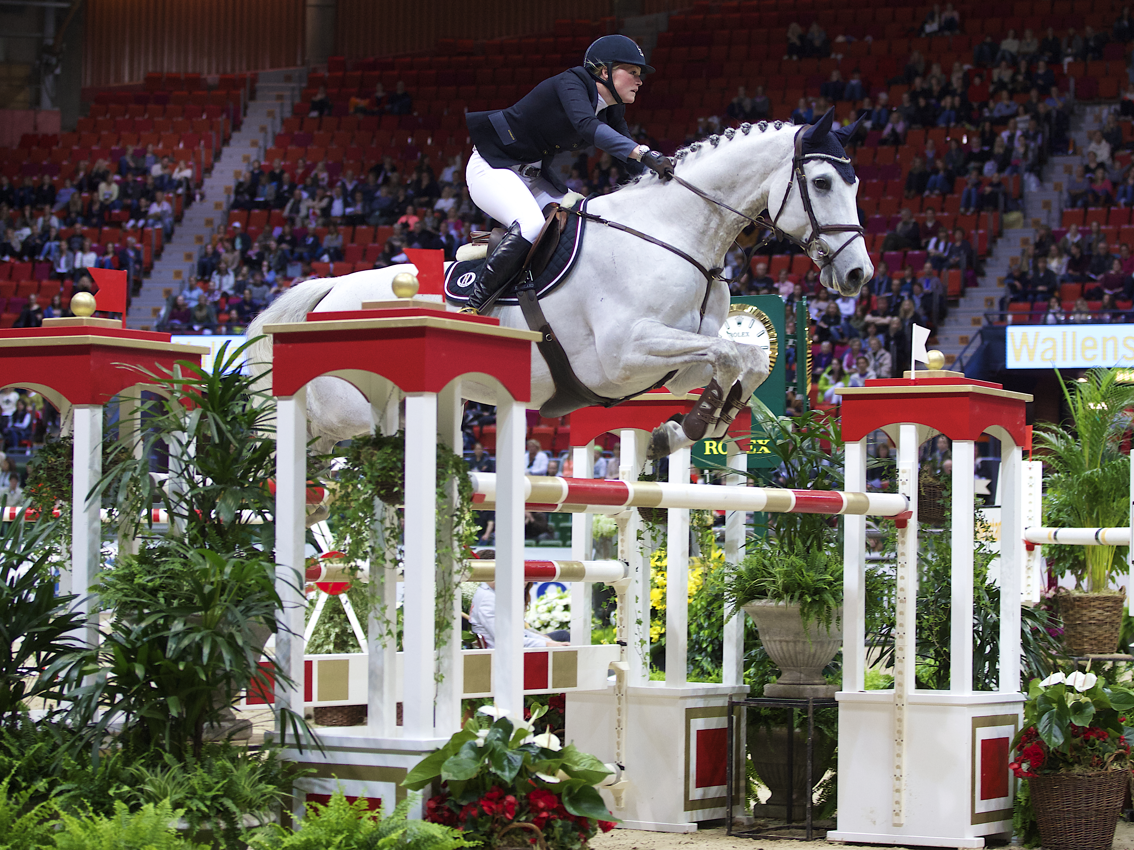 Gothenburg Horse Show 2013 (Foto: Claes Jakobsson).